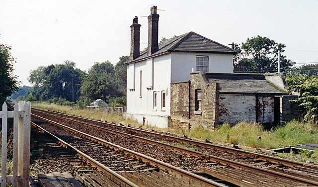 Site of Deeping St James Station. View SW, towards Peterborough North; ex-Great Northern, Peterborough - Spalding - Boston - Grimsby main line, closed 6/10/70 but reopened Peterborough - Spalding 7/6/71. This station (alternatively called 'St James Deeping') was closed to passengers 11/9/61, to goods 15/6/64.